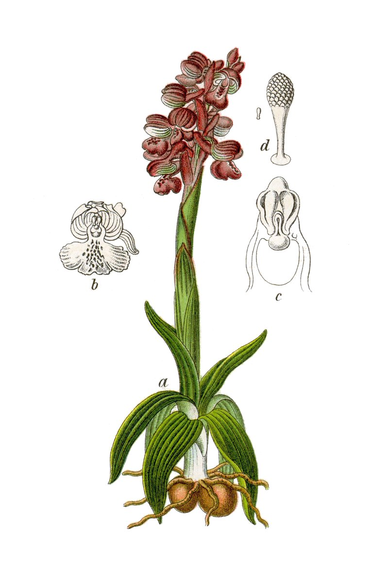 Orchis morio Clean version of Image:Sturm04012.jpg